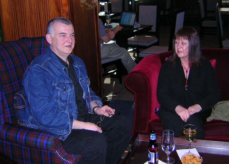 Sunday afternoon. It's been a long con.